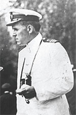 Commander J.K.L. Ross (1876-1951) of Montreal